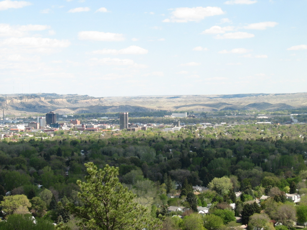 Skyline of Billings, Montana in the spring.